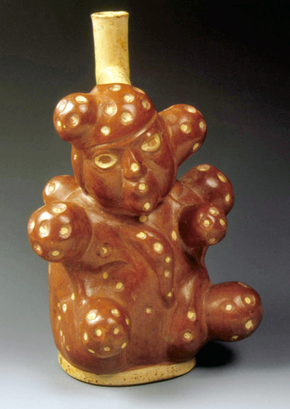 Anthropomorphic Mochica Potato 400 A.D. Larco Museum Collection, Lima, Peru.